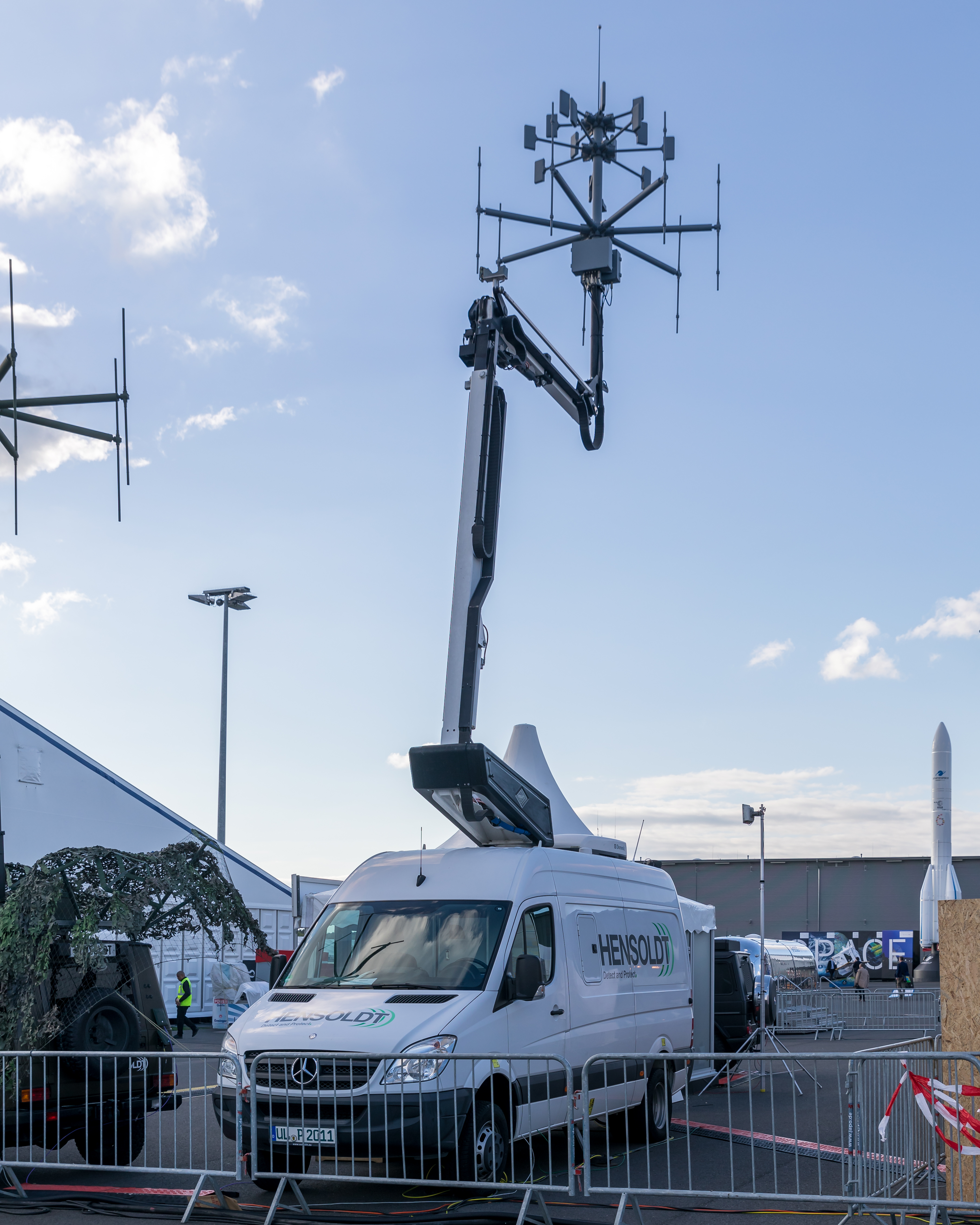 ILA 2018